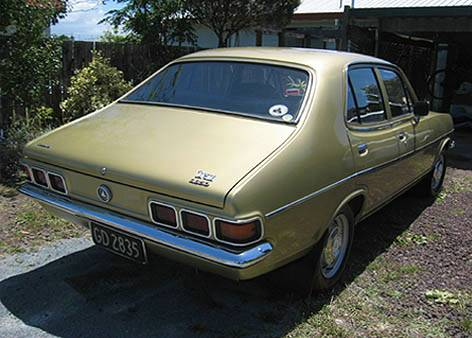 1972–1974 Holden LJ Torana S sedan.